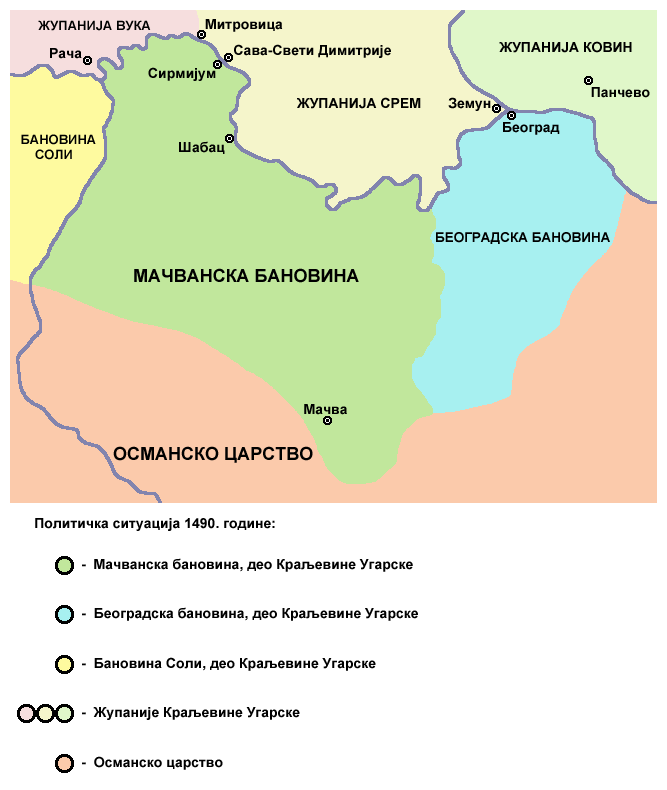 Banate of Mačva and Banate of Belgrade in 1490.